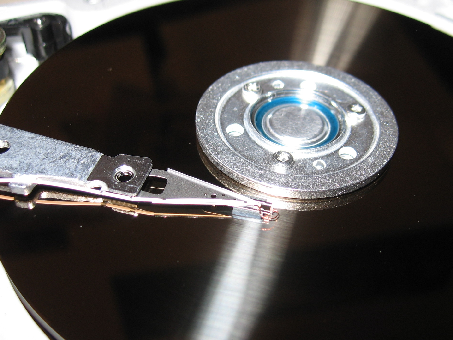 A hard disk head and platter